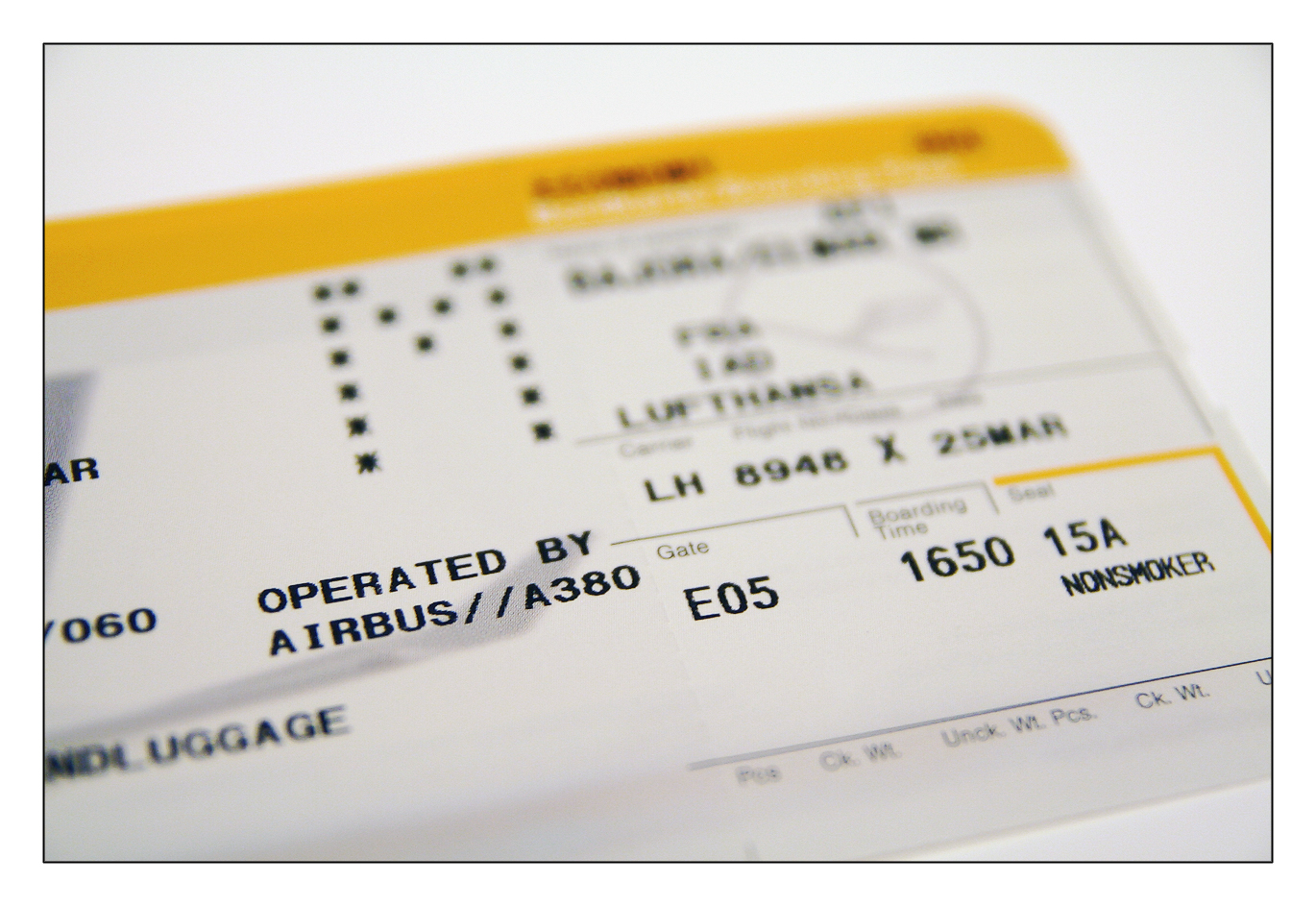 March 25th 2007 A380-800 Frankfurt/Main - Washington D.C. Route Proving Flight by Lufthansa and Airbus. AIB 301 (LH8948)